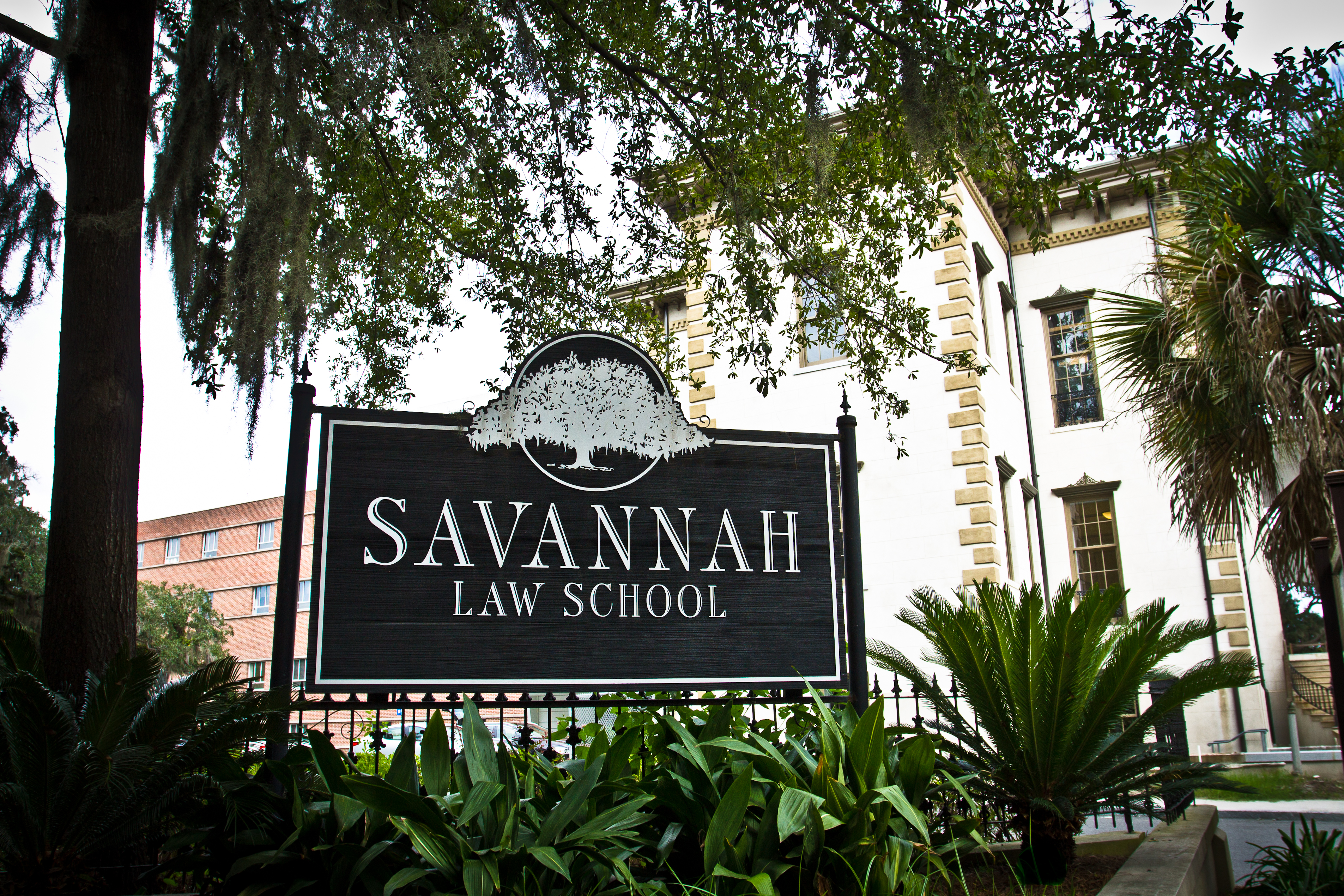 Photo of Savannah Law School